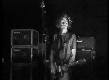 Sonic Youth live in the Netherlands, 1991. Photo by Channel ®.